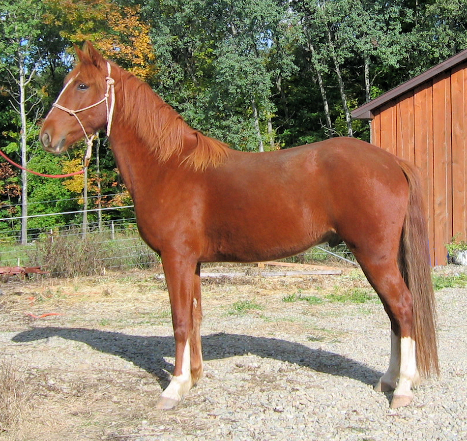 chestnut Mountain Pleasure Horse gelding